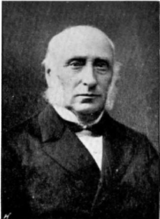 Sir Frederick Whitaker was an English-born New Zealand politician who served twice as Premier of New Zealand and six times as Attorney-General.